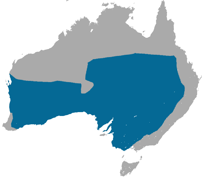 Fat-tailed Dunnart (Sminthopsis crassicaudata) range